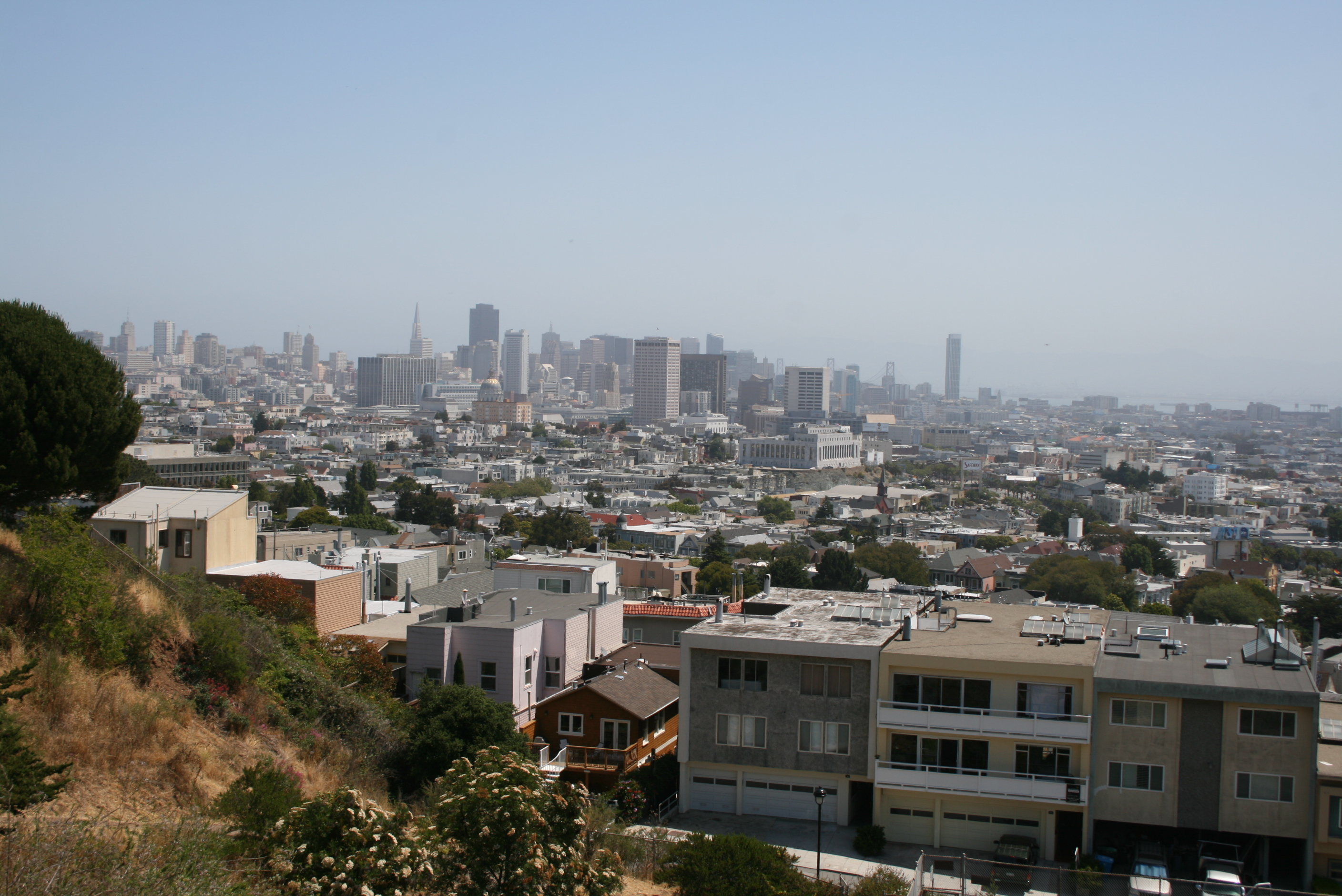 View of downtown San Francisco from the Randall Museum, located in Corona Heights Park in San Francisco, California